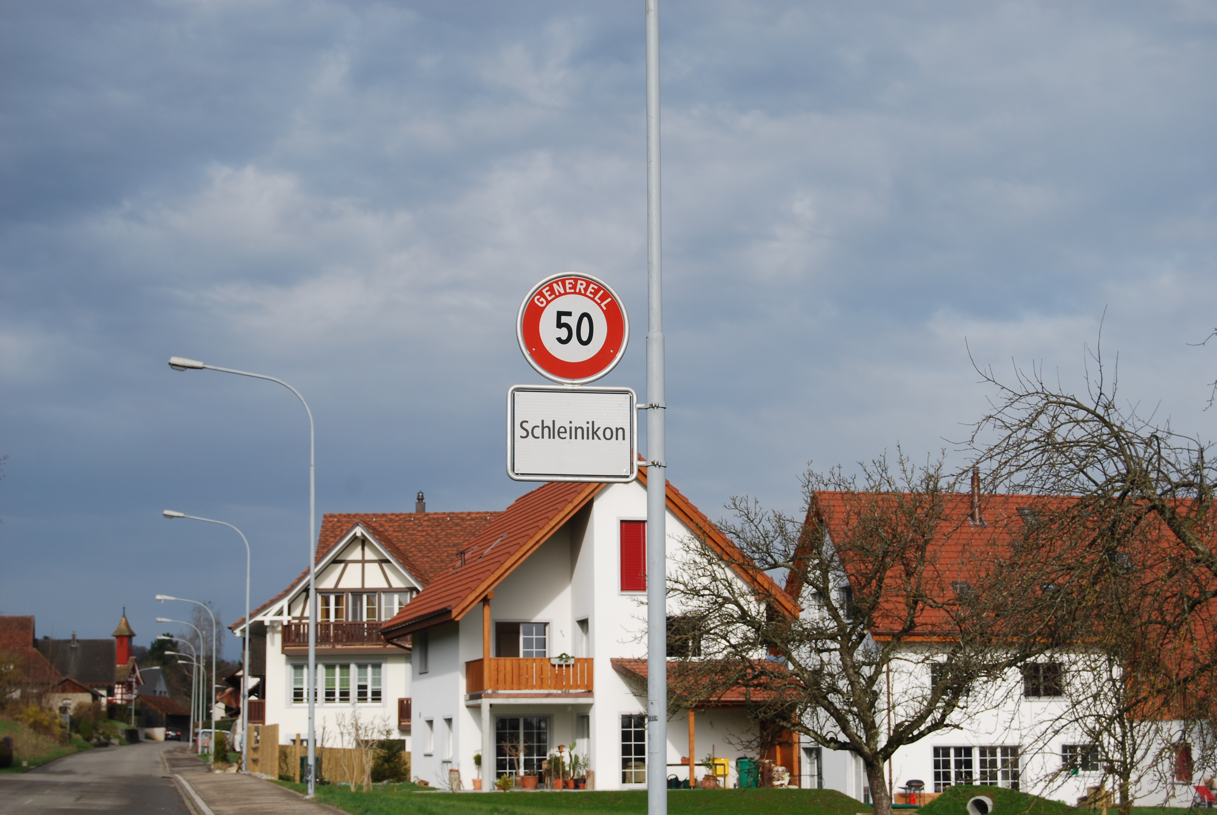 Village entry of Schleinikon, canton of Zürich, SwitzerlandEsperanto: Vilaĝeniro de Schleinikon, Kantono Zuriko, Svislando